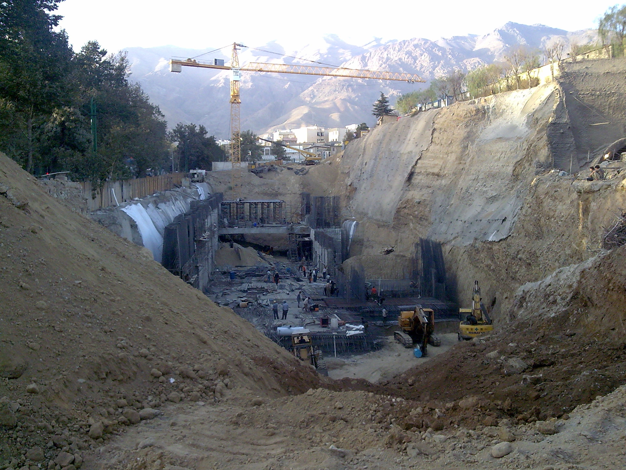 Construction of Tehran Metro, Gheytariyeh station